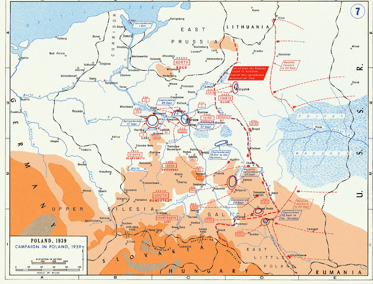 Polish Campaign - Operations - September 14 and afterwards. This map does not include Slovak Army activity in the South of Poland.